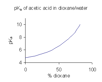 Plot of pKa as a function of dioxane% in dioxane/water mixtures